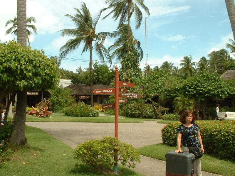 The open-air terminal area at Ko Samui international airport.